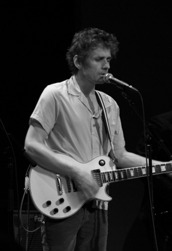 Indie rock singer/guitarist Dean Wareham performs at Yoshi's San Francisco in 2009.